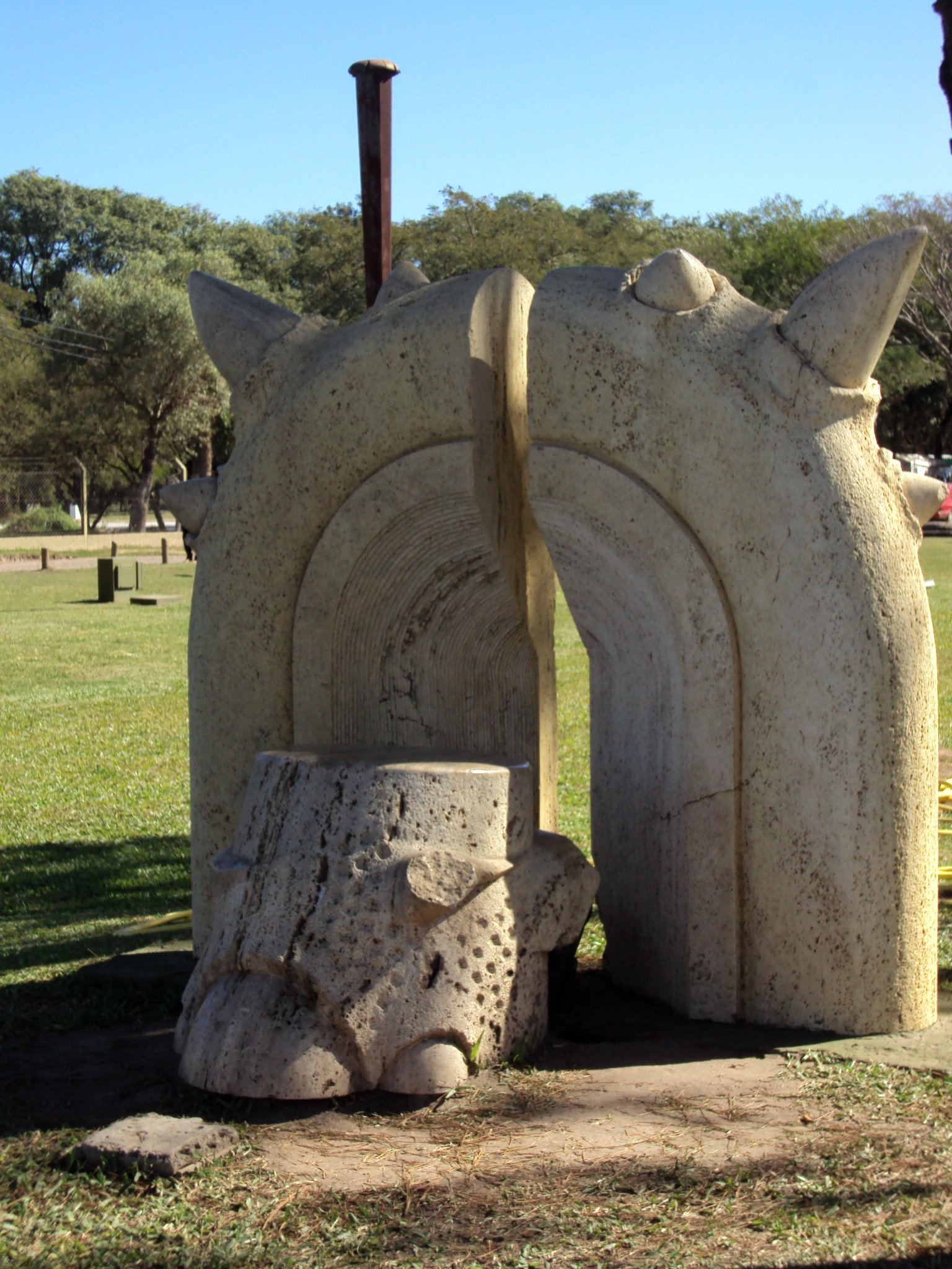 Bosque, Baku Inoue. Sculpture in 2 de Febrero Park, Resistencia (Argentina)